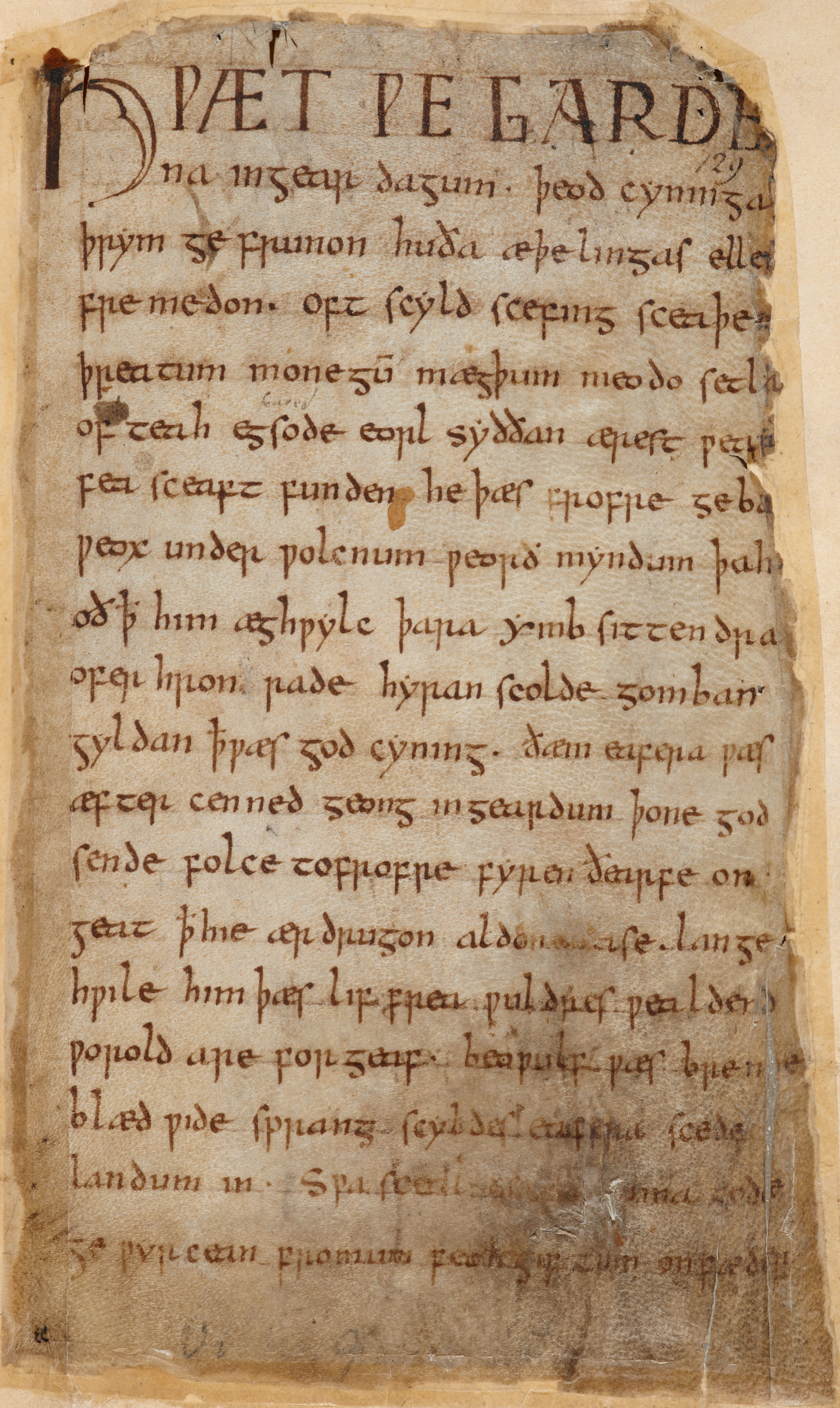 The first folio of the heroic epic poem Beowulf, written primarily in the West Saxon dialect of Old English. Part of the Cotton MS Vitellius A XV manuscript currently located within the British Library. This is a digital photographic copy of the folio.